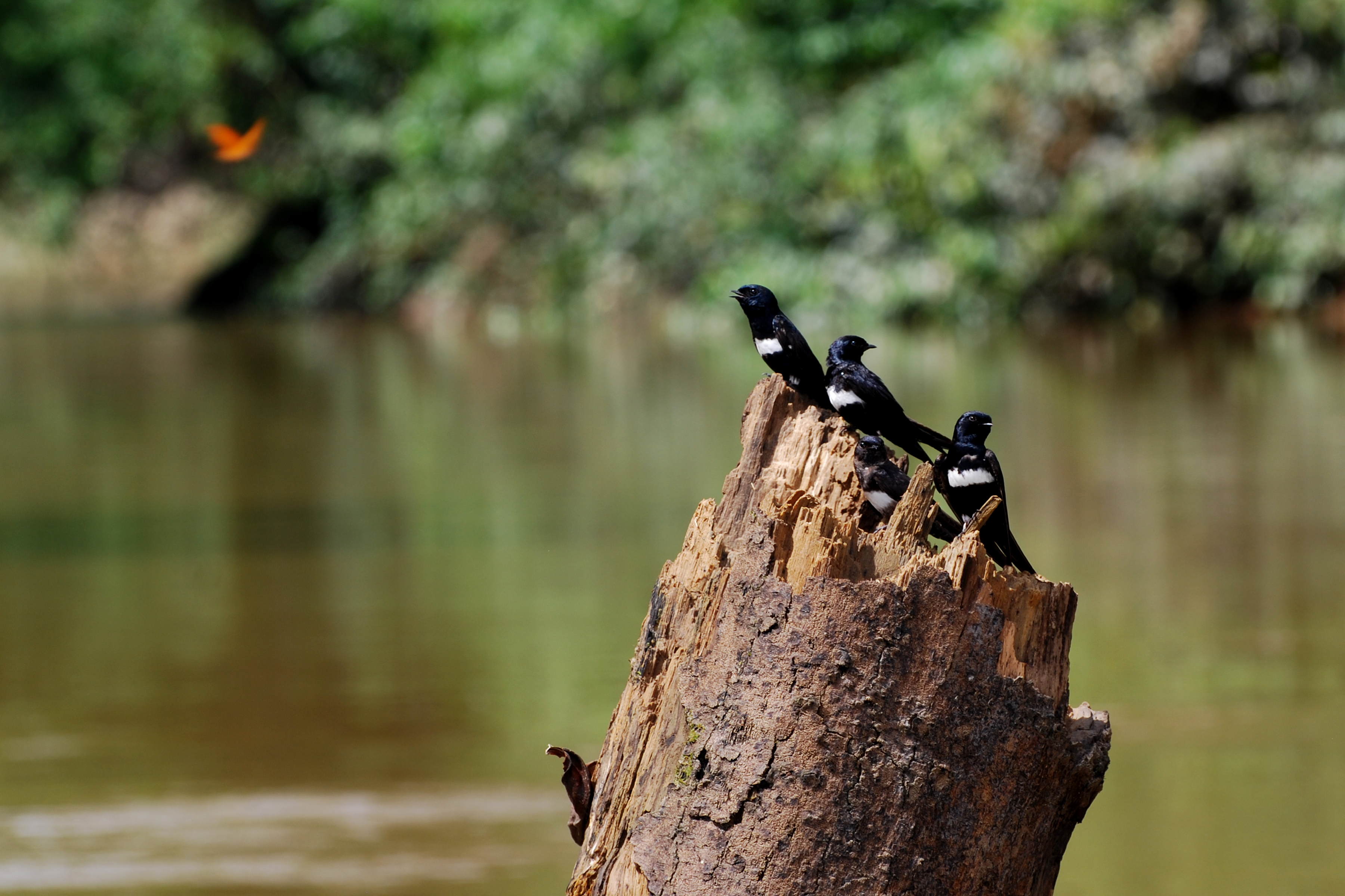 White-banded Swallows Atticora fasciata perching of a tree stump on the bank of Rio Tiputini, Yasuni National Park, Ecuador.